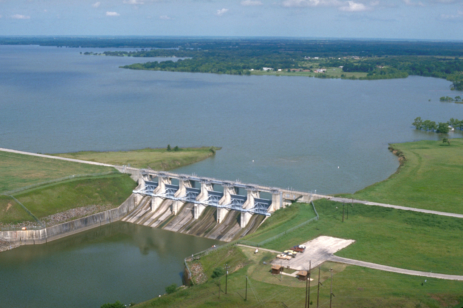 Aerial view of Navarro Mills Lake and Dam on Richland Creek in Navarro County, Texas, USA. The U.S. Army Corps of Engineers constructed this dam in 1963 for flood control and water supply for Navarro County. This concrete and earth-fill dam is about three-quarters of a mile (1 km) long, but this photograph shows only the central water-control structure of the dam. View is to the northwest. U.S. Army Corps of Engineers: Navarro Mills Lake U.S. Army Corps of Engineers: Navarro Mills Lake Coordinates: 31°57′27.18″N 96°41′22.1″W / 31.95755°N 96.689472°W